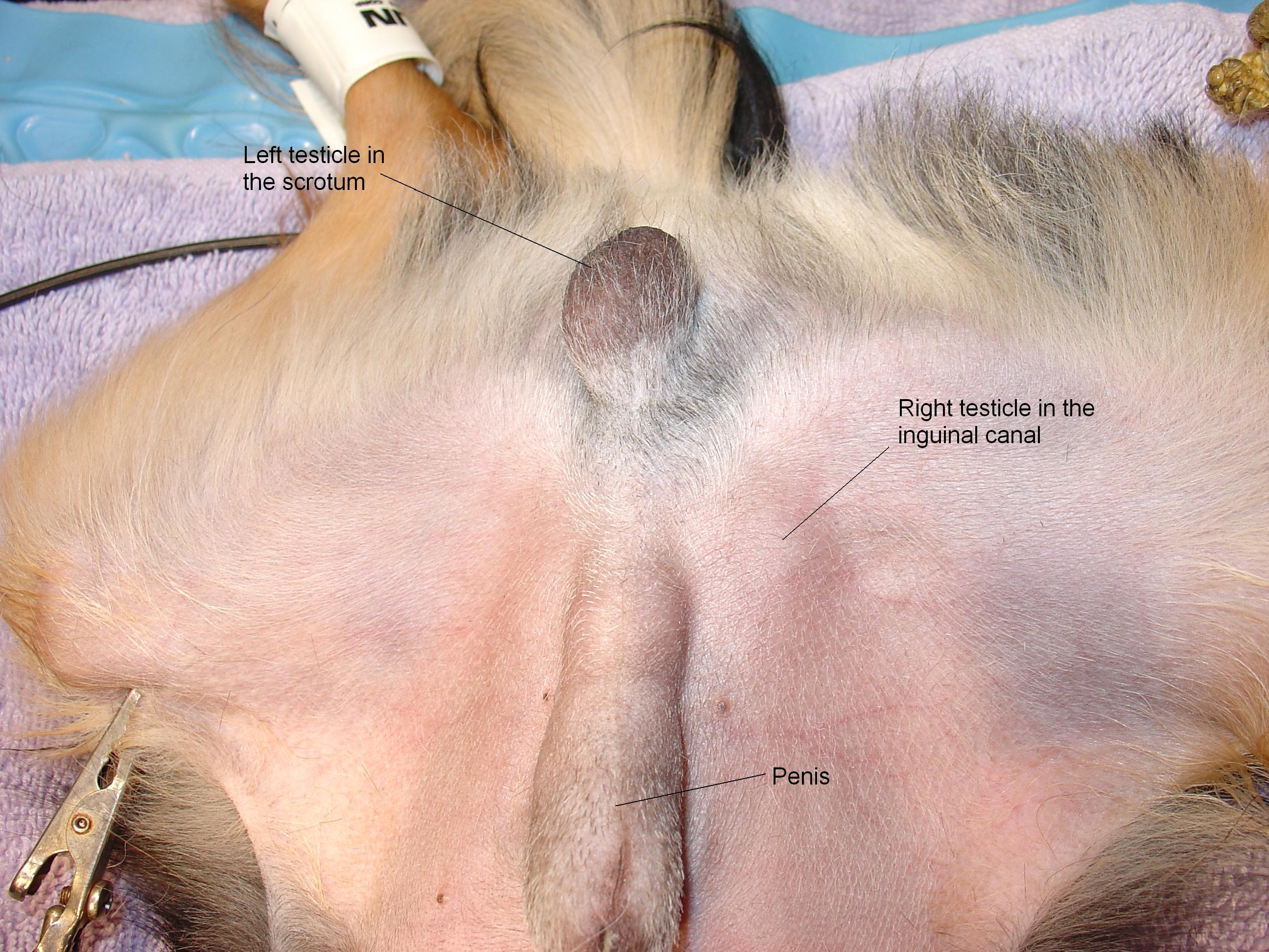 Right inguinal cryptorchidism in a Chihuahua just prior to surgery. A bump can be seen where the inguinal testicle is located.